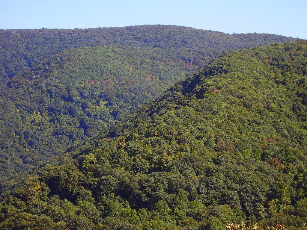 Mountains viewed from Baughman's Rock in Ohiopyle State Park.